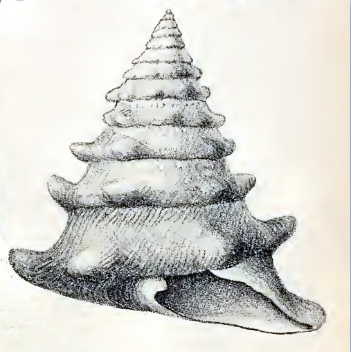 Tectus (Tectus) dentatus (Forsskål in Niebuhr, 1775); family Tegulidae